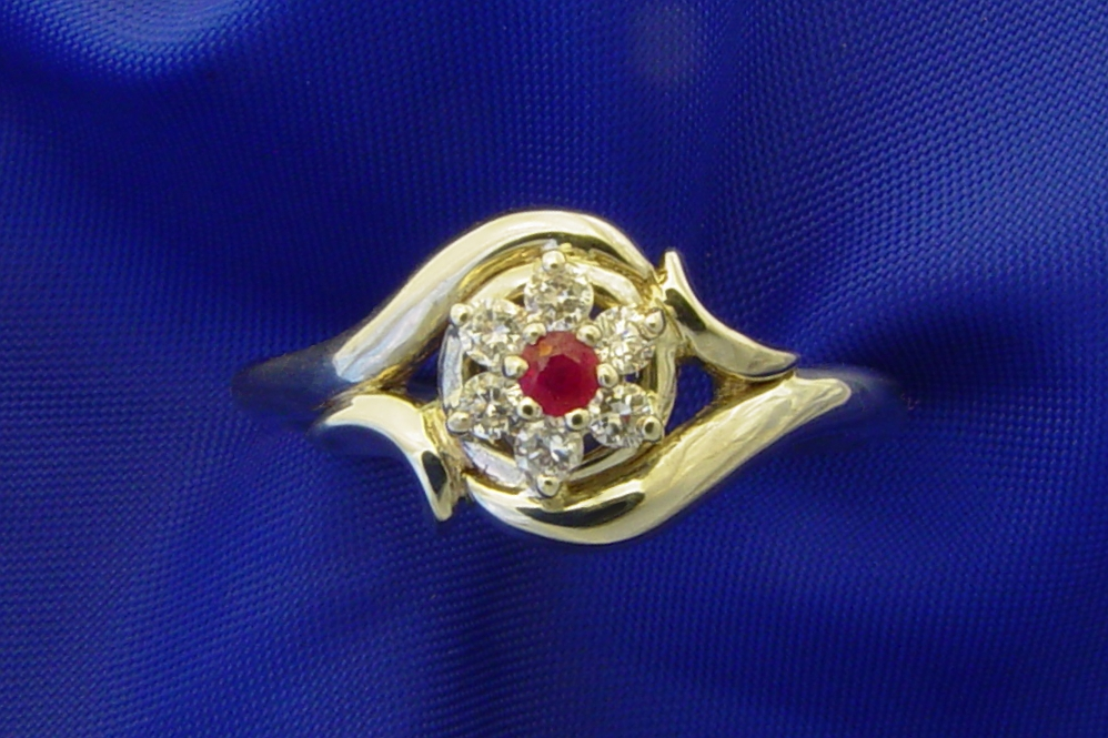 14kt white gold ring, with a ruby and several smaller diamonds. Photography taken by a Canadian jeweller.